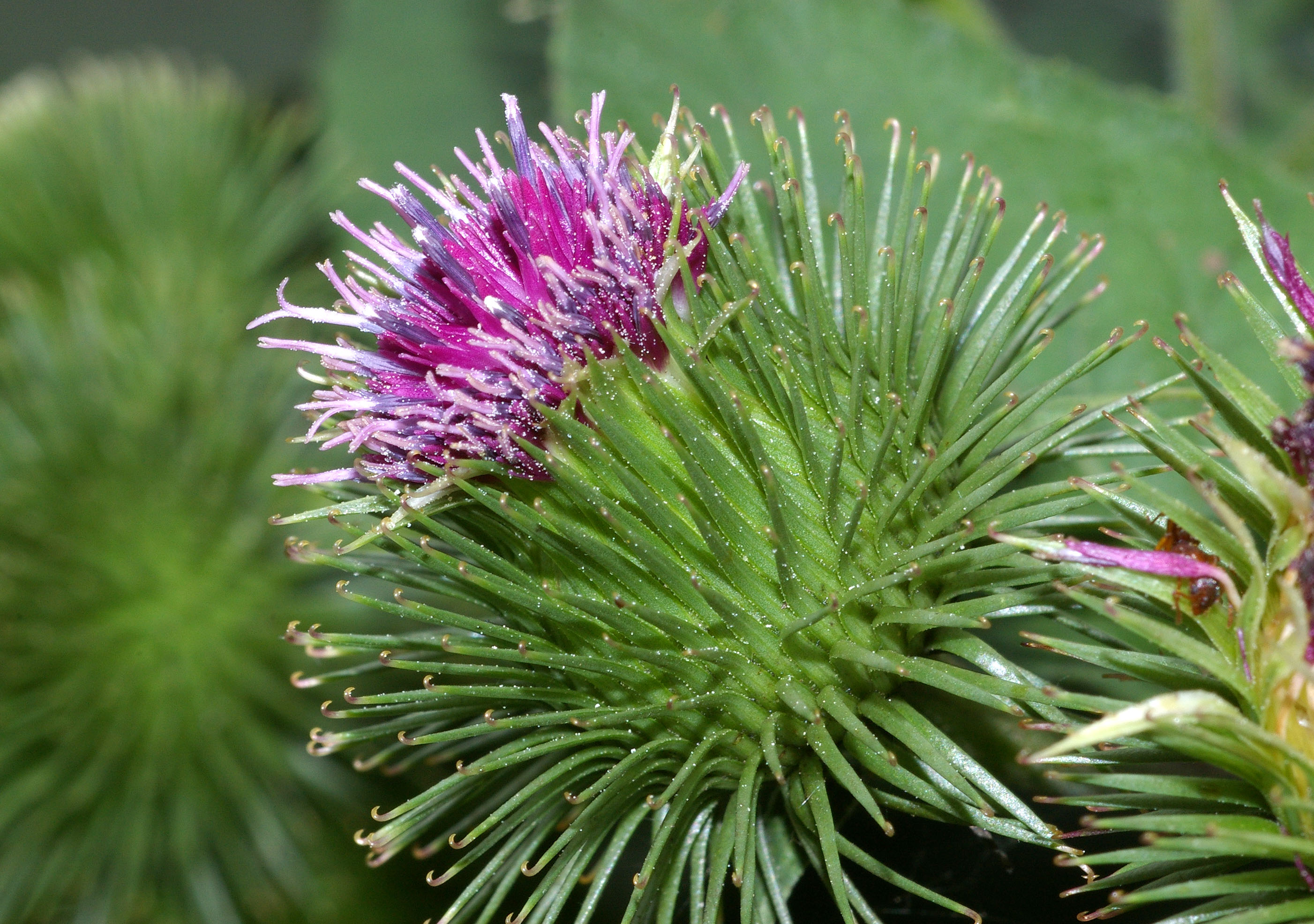 Inflorescence of Greater Burdock, Arctium lappa (Asteraceae).